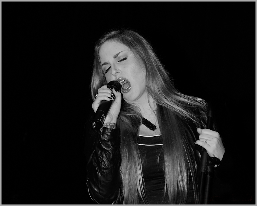 Maika Ceres Live from a Show called "Furor Celta" in Punta del Este, Uruguay, July 2013.